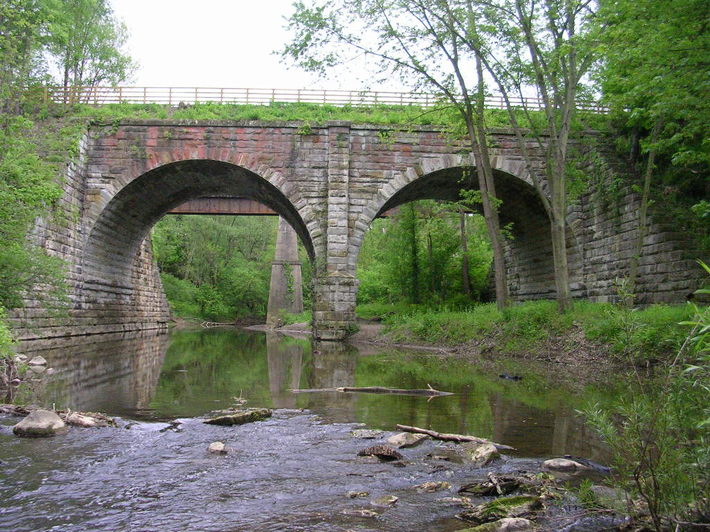 The double arch bridge of the Former New York Central Railroad across the East Branch of the Huron River, Norwalk. The active Wheeling and Lake Erie Railway bridge is immediately behind it.